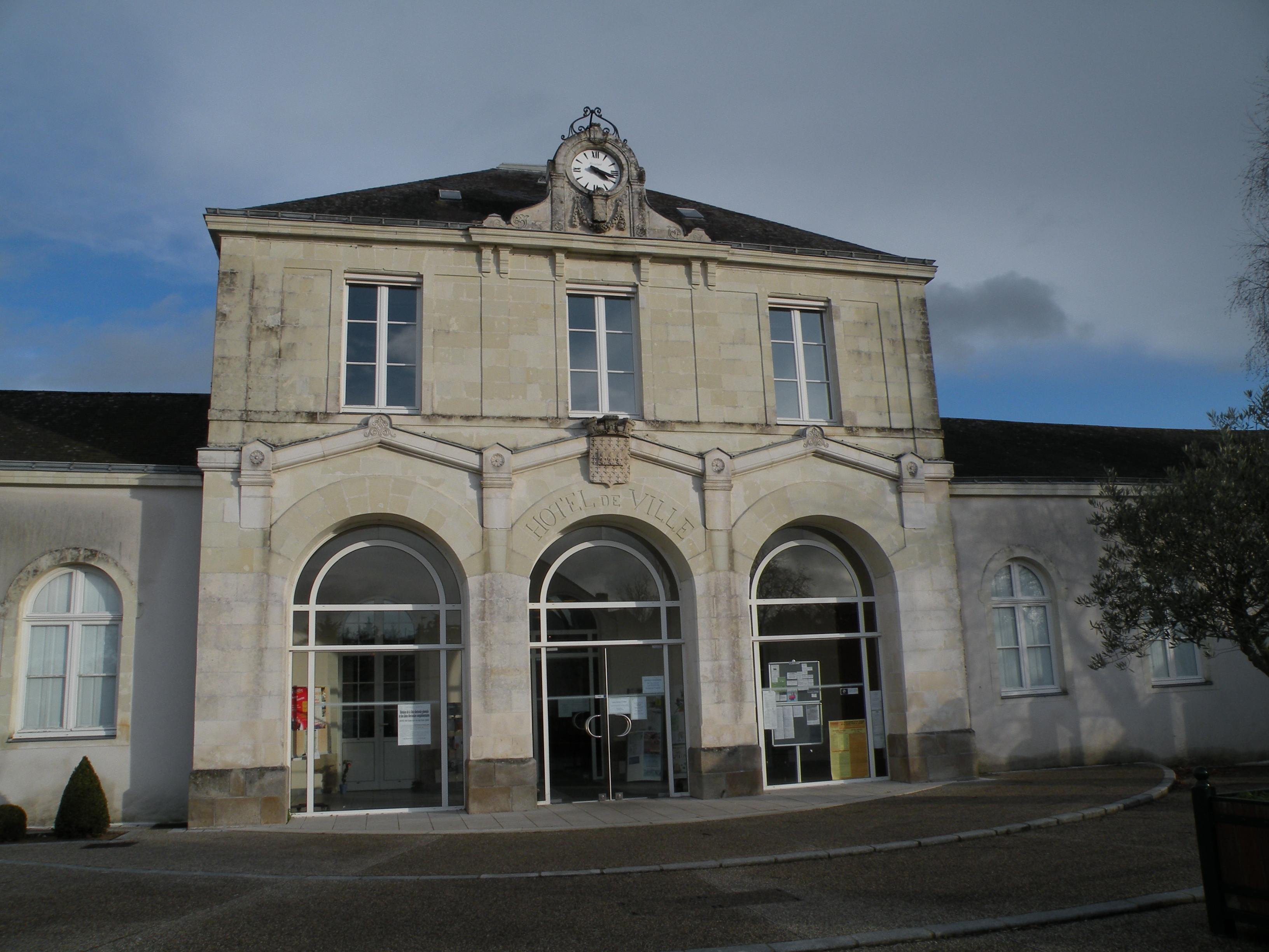 Town hall of Saint-Étienne-de-Montluc